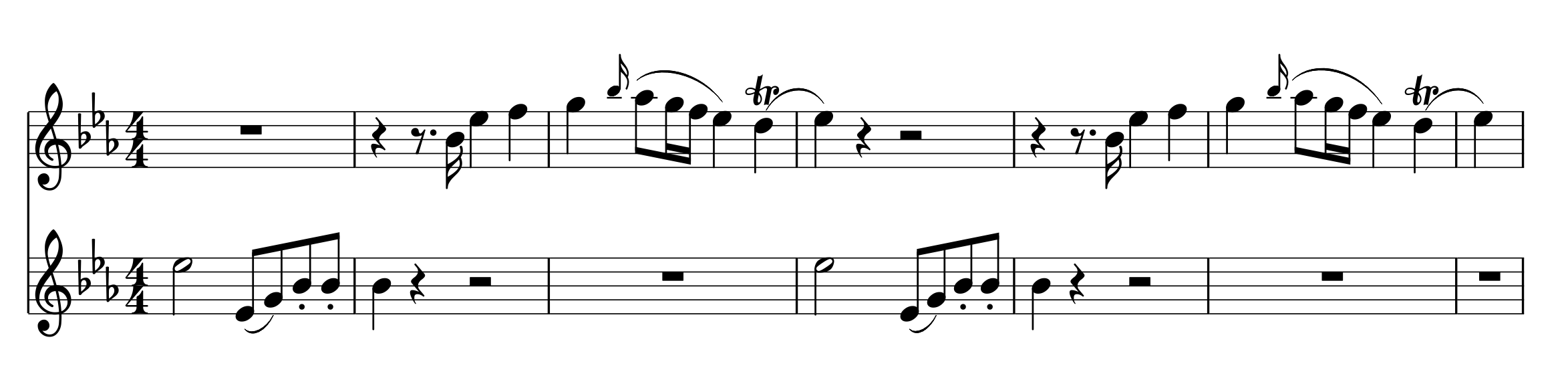 Mozart, Piano Concerto No. 9 K. 271, first movement, principal theme